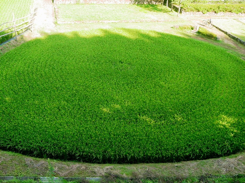 kurumada or traditional circular ricefield in Takayama, Gifu, Japan